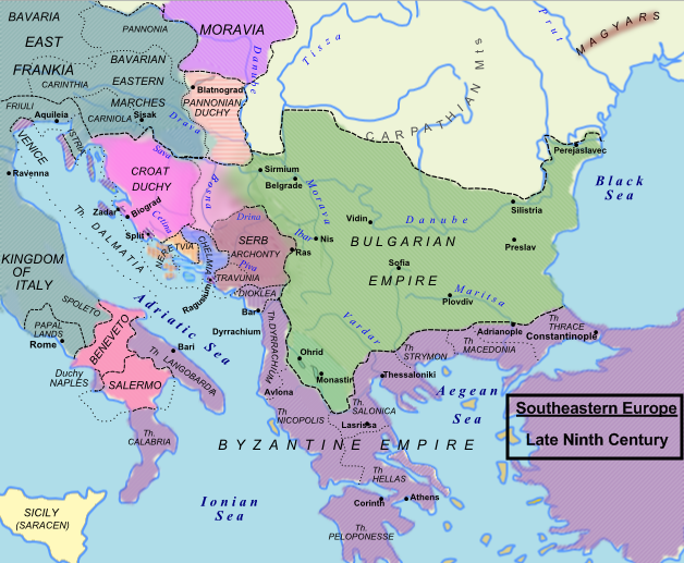 Sources: 1. P.M. Barford, The Early Slavs. Culture and Society in Early Medieval Eastern Europe, ISBN 0-8014-3977-9 2. John Fine, Jr., The Early Medieval Balkans, ISBN 0-472-08149-7 3. D. Hupchik, The Balkans. From Constantinople to Communism, ISBN 1-4039-6417-4 Invalid ISBN 4. H.E. Stier (dir.), Grosser Atlas zur Weltgeschichte, Westermann publ., Braunschweig 1985, ISBN 3-14-100919-8, pp. 54-59. Borders were often fluctuant, and those represented here are based on discussions contained within the above books. Hxseek (talk) 03:42, 15 January 2009 (UTC)